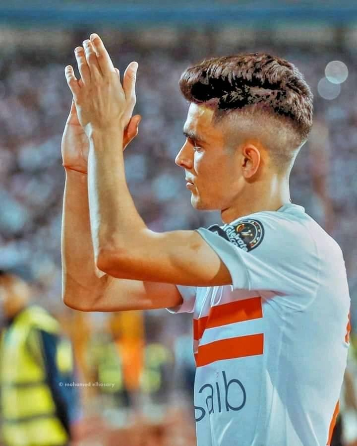 Achraf Bencharki after defeating Espérance Sportive de Tunis 3-1 at CAF Champions League